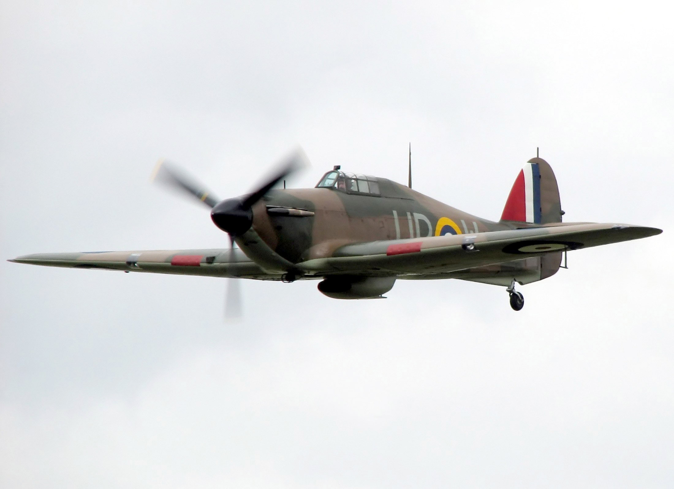 Hurricane Mk1, RAF serial R4118, Squadron code UP-W, UK civil registration G-HUPW, at the PFA Flying for Fun Rally at Kemble Airfield, Gloucestershire, England. The aircraft was delivered new to 605 (County of Warwick) Squadron at Drem, Scotland, on August 17th 1940. This aircraft flew 49 combat sorties from Croydon, England, destroying 3 enemy aircraft and damaging 2 others. It carries its original markings.